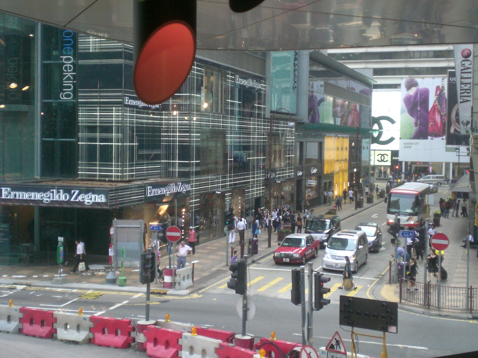 尖沙咀 陰天拍攝 裕華國際大廈外望 九龍公園徑 北京道 北京道一號 膠水馬